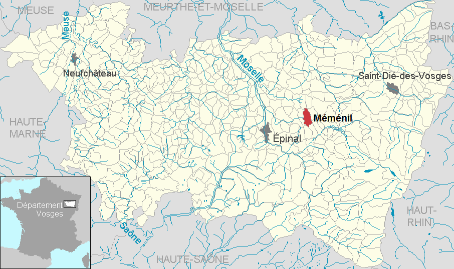 Méménil in the department of Vosges, Lorraine, France